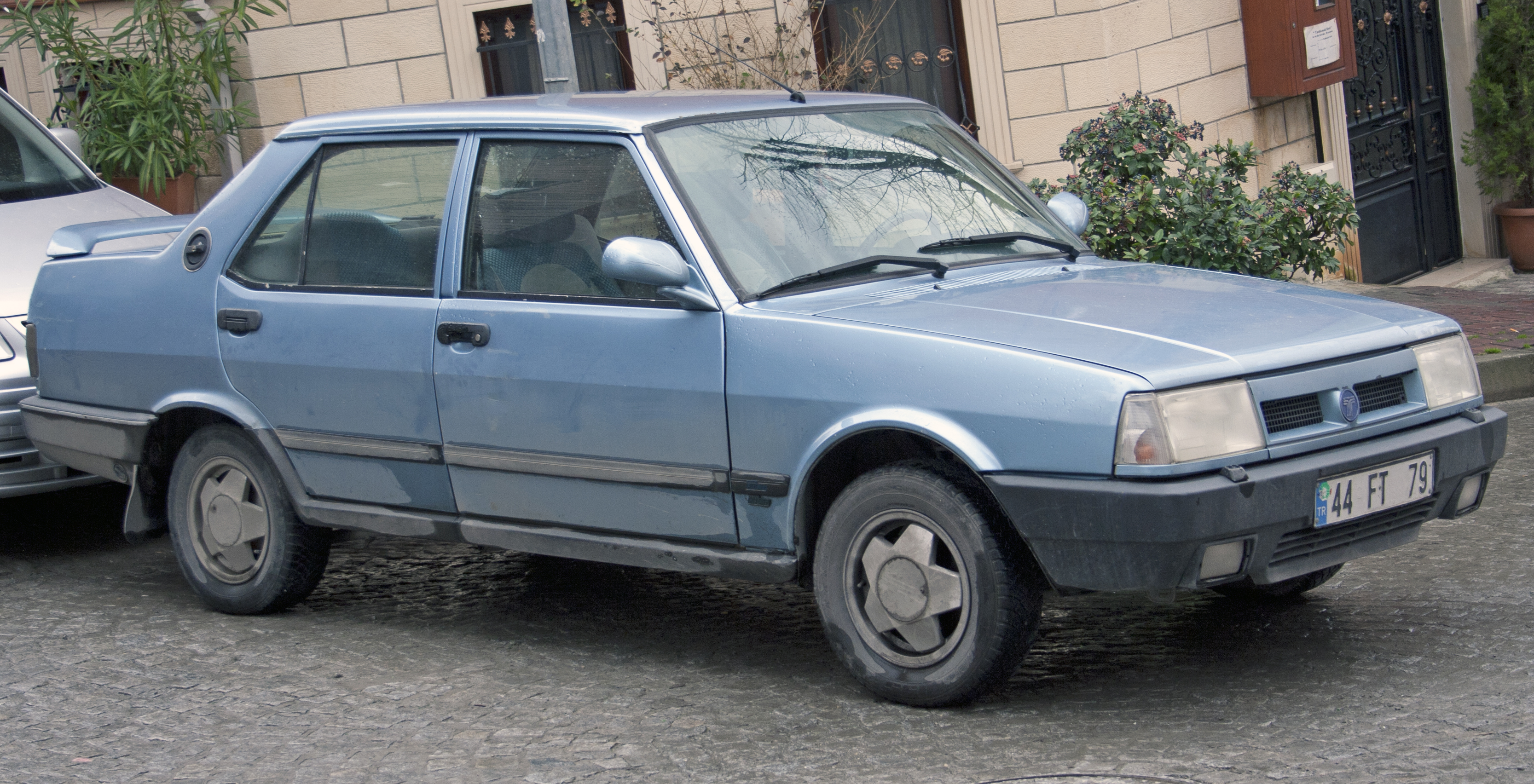 Tofaş Doğan SLX.